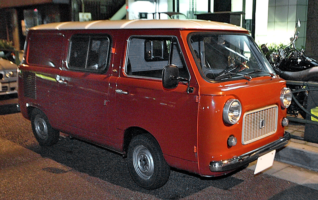 Fiat 850T